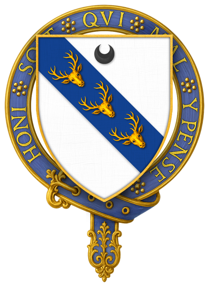 Coat of arms of Sir William Stanley, KG